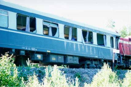 Passenger train and ballast trailer lorry colliding at Kuivaniemi, on 6 July, 2000. Ballast from the cartridge pallet penetrated trough the windows into the first coach.